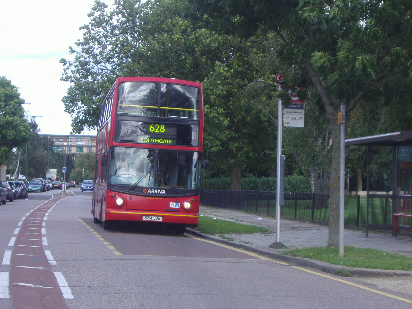 If that's going all the way to Southgate, what with stops and rush hour traffic would take at least an hour.